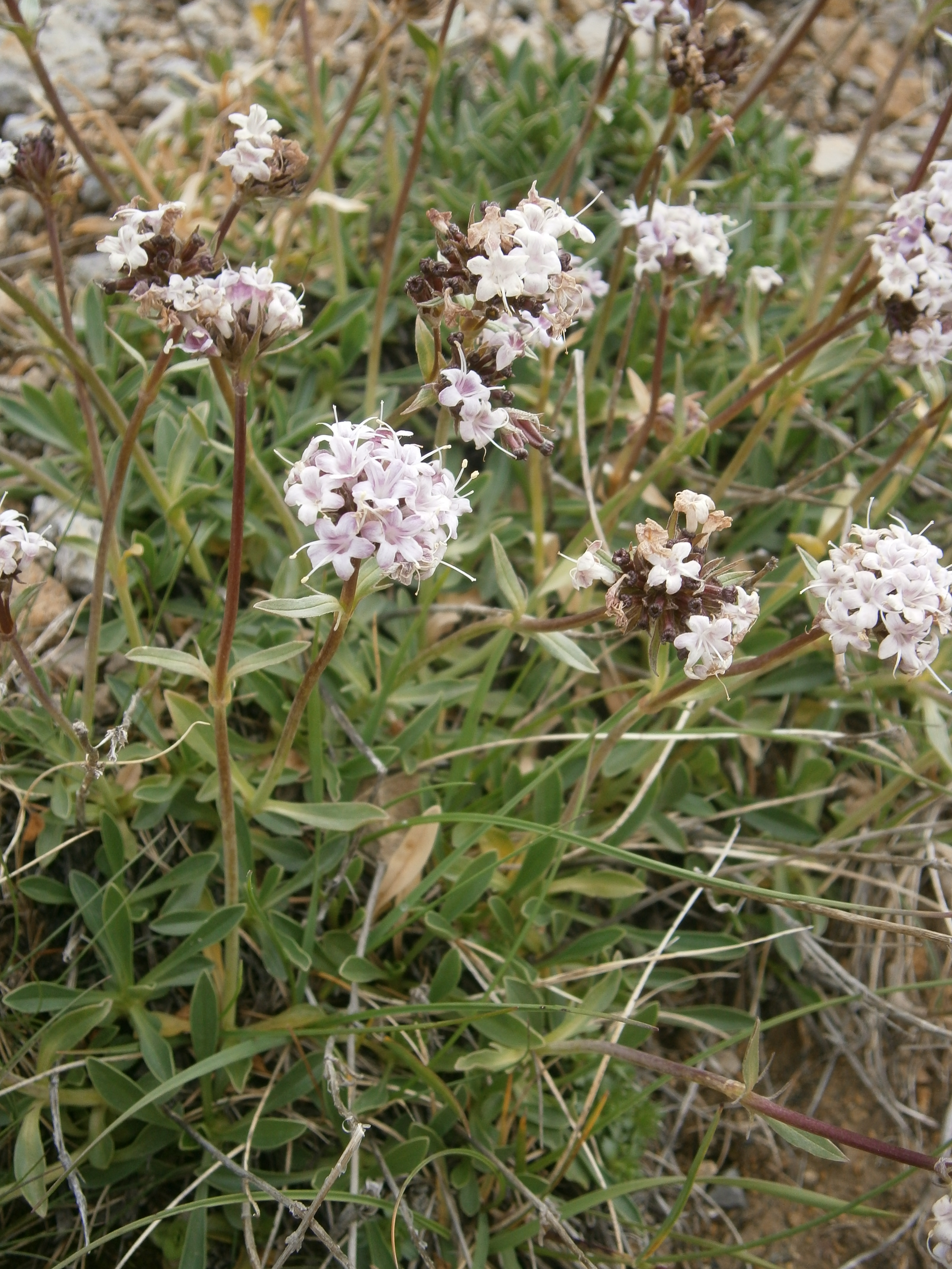 Valeriana saliunca at the col d'Izoard